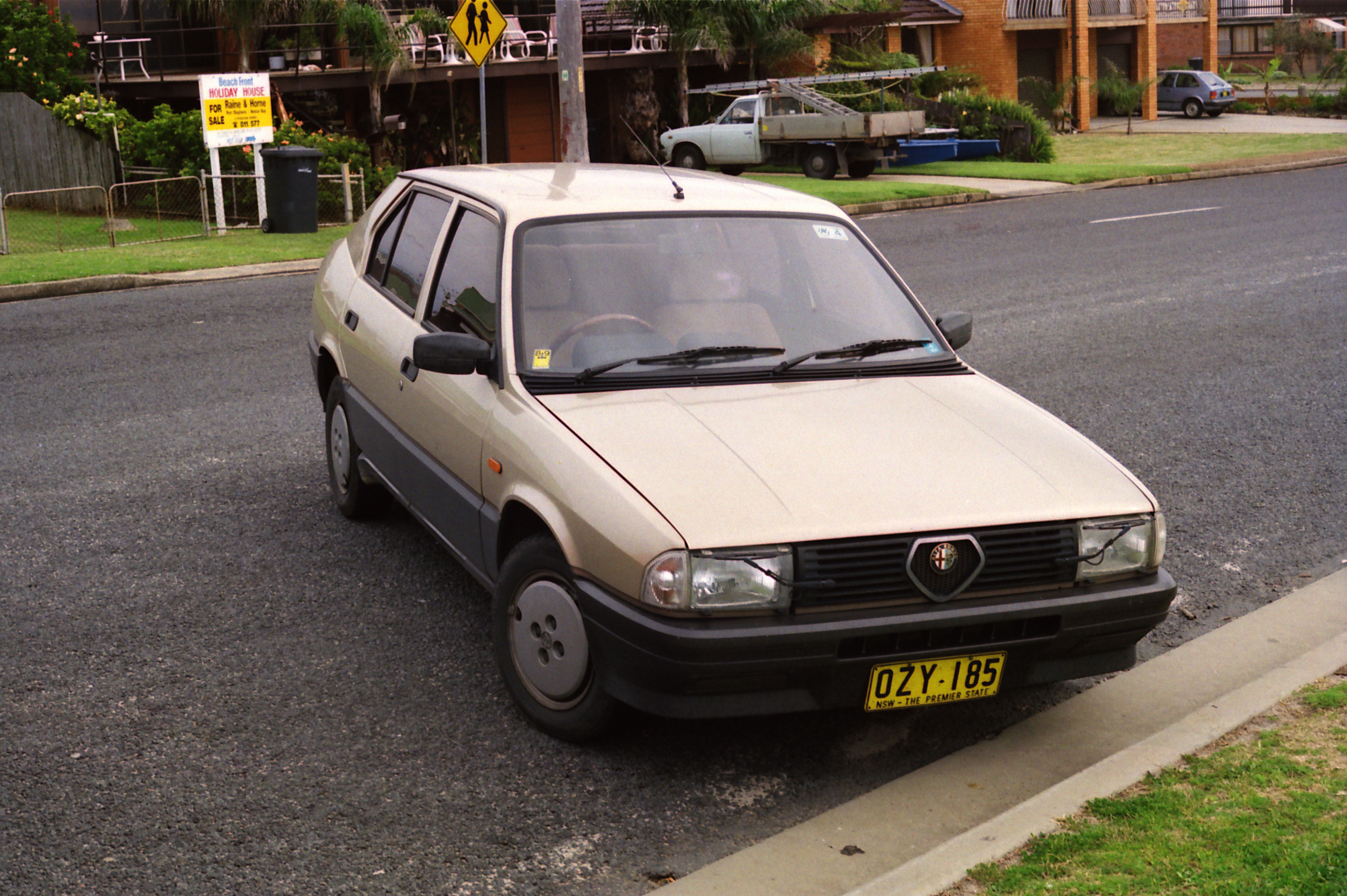 1984 Alfa Romeo Alfa 33 hatchback. This appears to be the original model released to Australia in May 1984, with the headlamp washers [1]. This was replaced by the GCL (Gold Cloverleaf) trim in February 1985 [2]. This model also appears to be equivalent to the international Quadrifoglio Oro variant. This image is a scan of a 35 mm print taken in 1989.